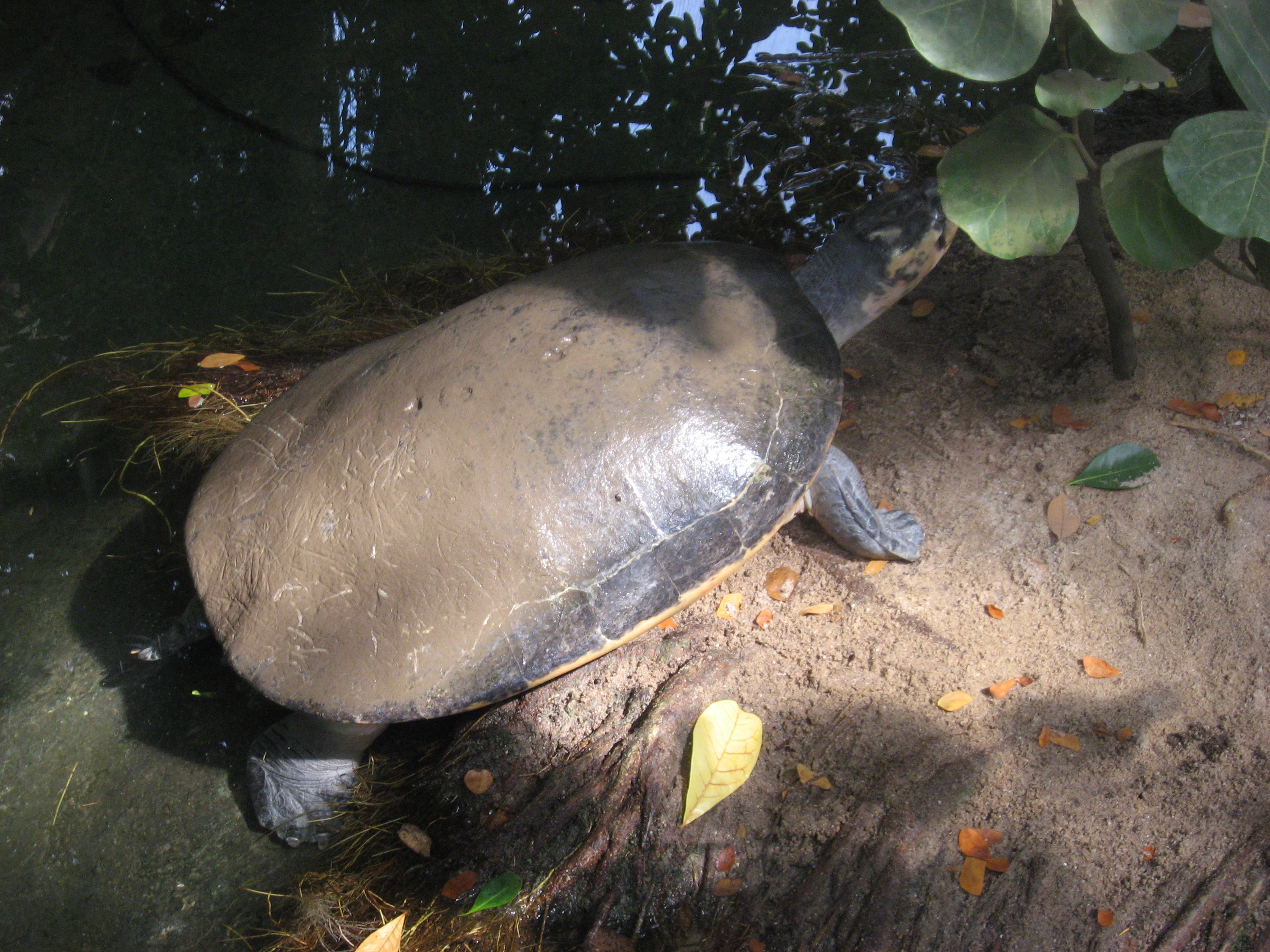 Podocnemis expansa (Arrau turtle) in Zoo Krefeld